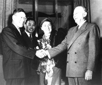 Japanese Finance Minister Hayato Ikeda (1899–1965) welcomes special ambassador Joseph Dodge and his wife.